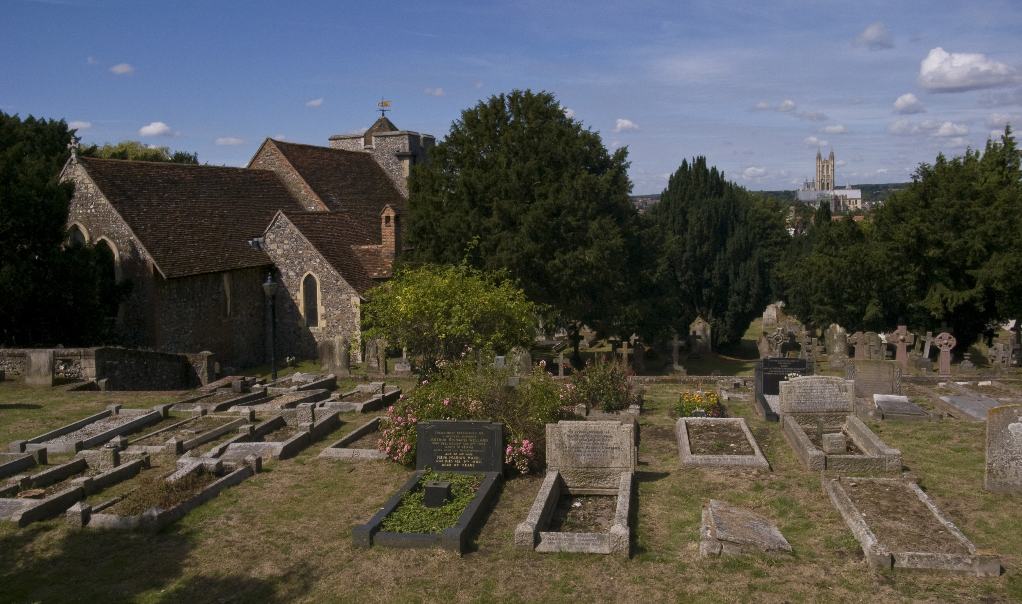 St Martin's Church, Canterbury, England. In the distance, Canterbury Cathedral